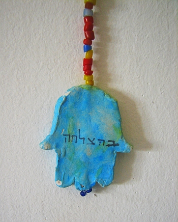 Photo by Gila Brand. This is my own work. Handmade clay hamsa on a wall, inscribed with the Hebrew word בהצלחה "Behatzlacha" - Success.